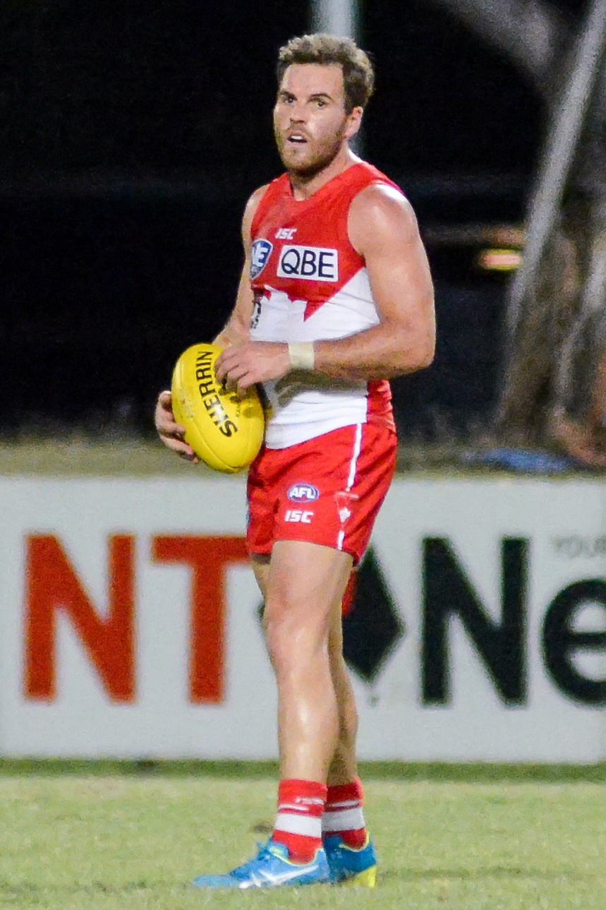 McGlynn playing for the Sydney Swans reserves in August 2016